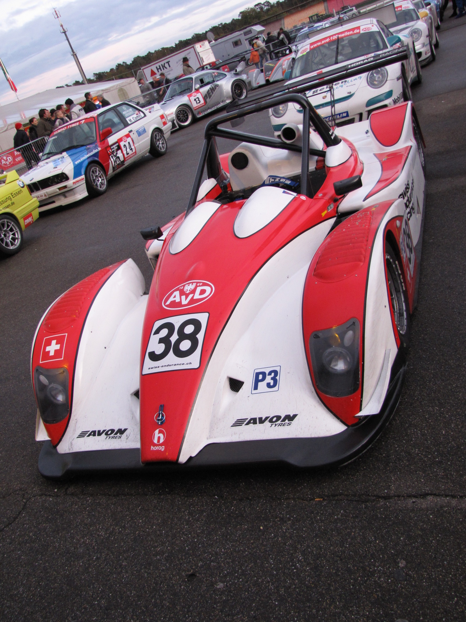 Ligier JS51 of Horag Racing in parc fermé at Hockenheimring 2009